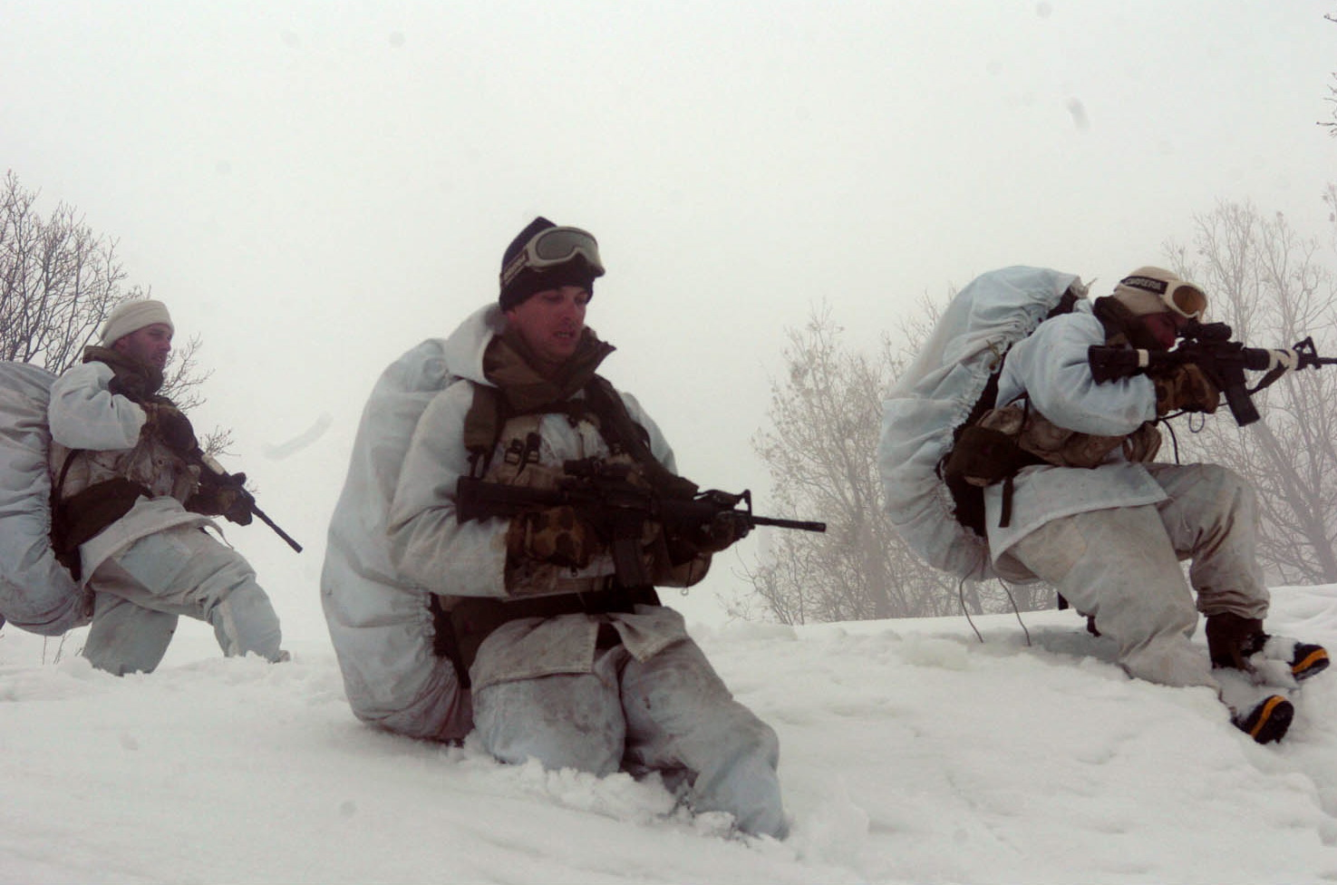 February 15, 2007. Every year during the winter season, the combat soldiers of the Alpine Unit are dispatched to Mount Hermon, after having been trained to operate under extreme weather conditions. Pictured here: Combat soldiers training at the Hermon. כמדי שנה בתקופת החורף, פועלים לוחמי יחידת האלפיניסטים בגיזרת החרמון, זאת לאחר שהוכשרו לתת מענה מבצעי במצבים של מזג אוויר סוער. בתמונה נראים לוחמי היחידה באימון בחרמון